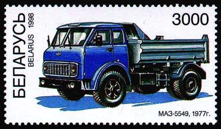 Stamp of Belarus